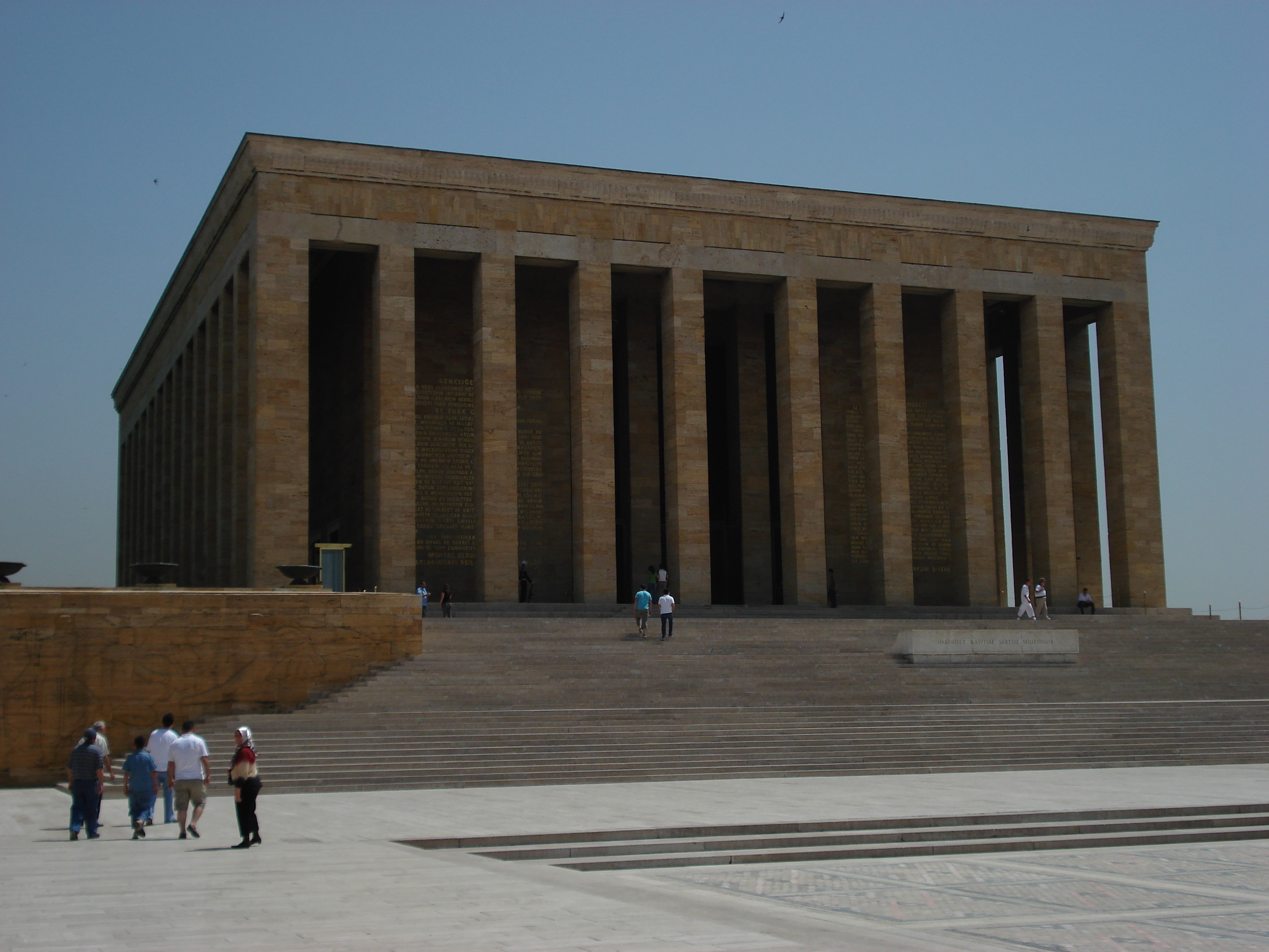 The Anıtkabir (literally, "memorial tomb") the mausoleum of Mustafa Kemal Atatürk